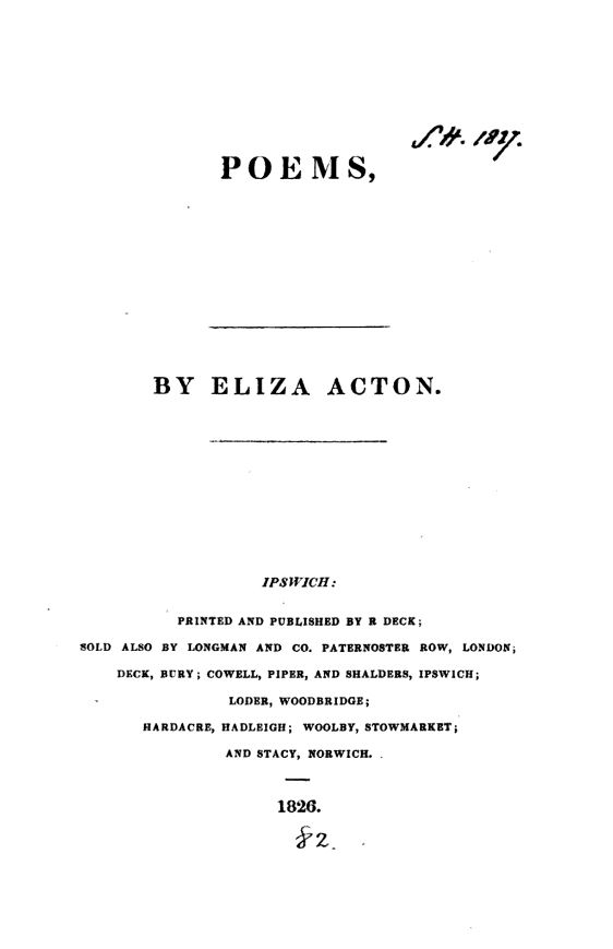 Title page of Poems by Eliza Acton, published in 1826